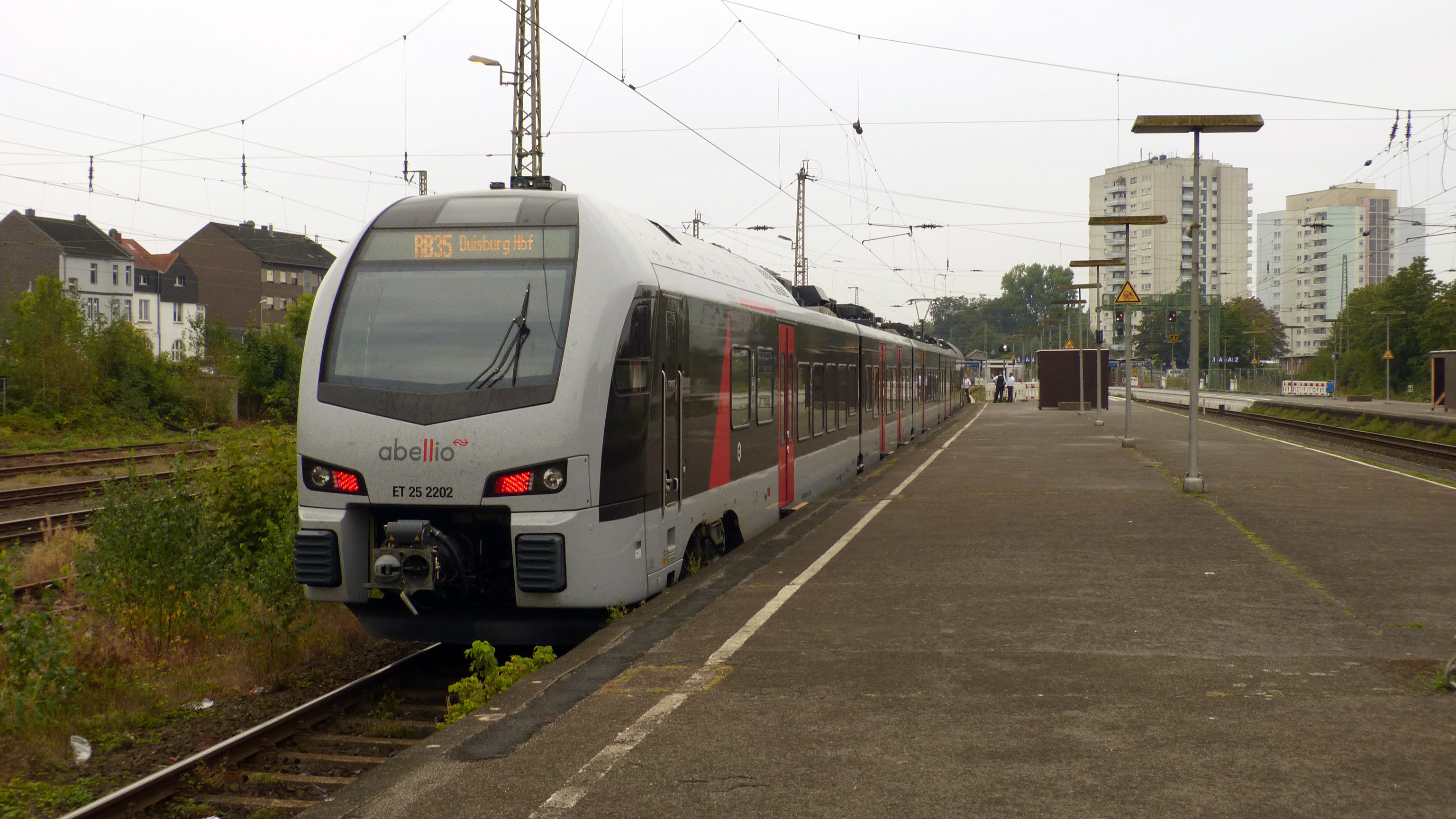 EMU ET 25 2202 of Abellio Rail NRW as RB35 localtrain to Duisburg at the trainstation of Wesel, Northrhine-Westphalia